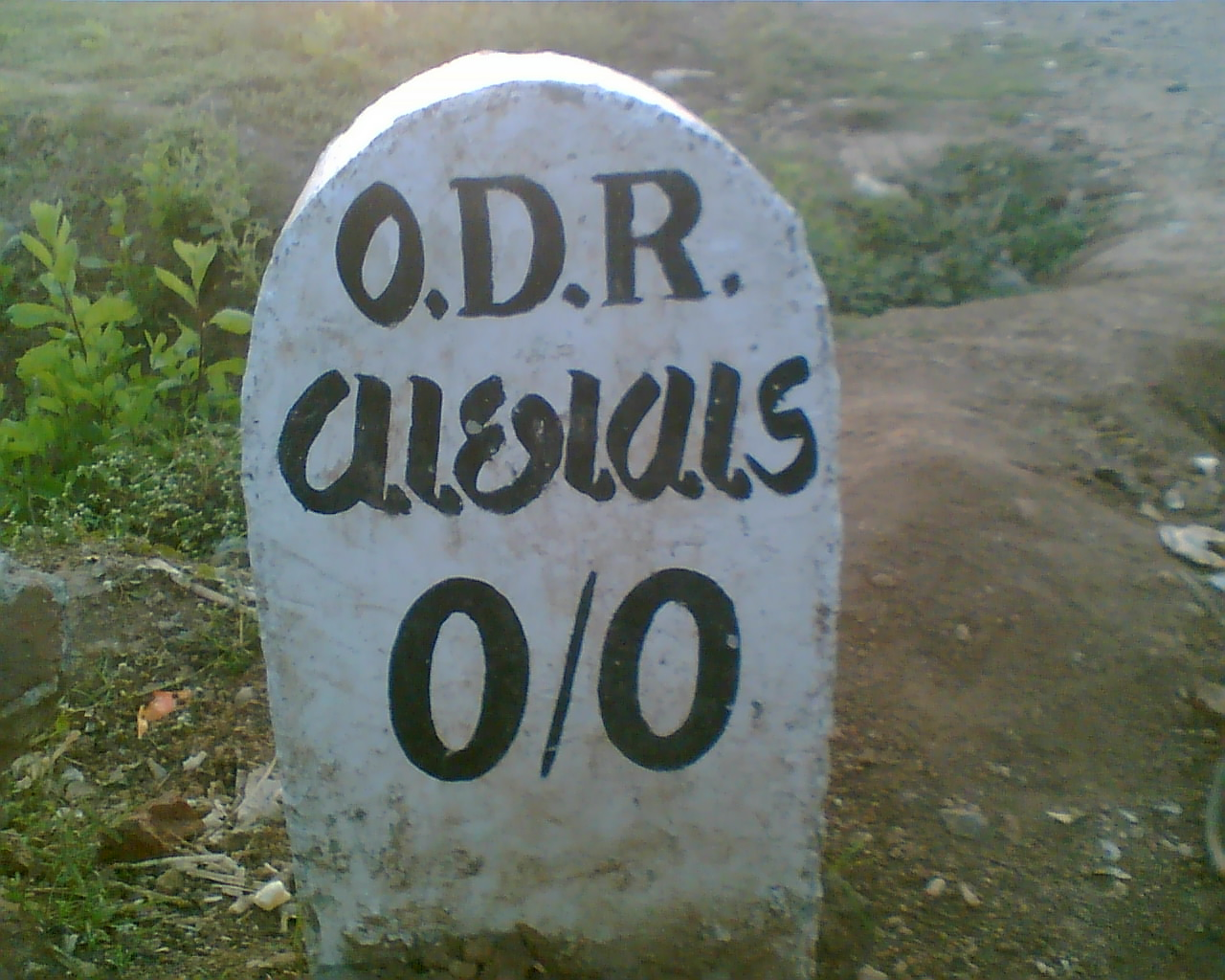 my Pic